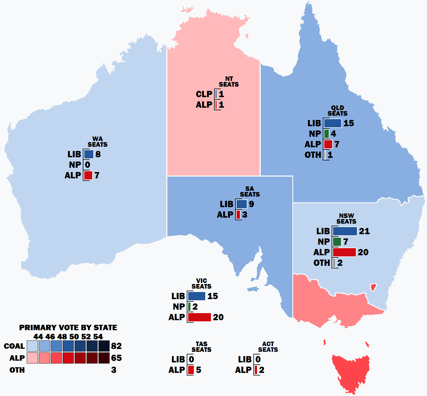 Result of the primary vote by state and territory in the 2001 Australian federal election.